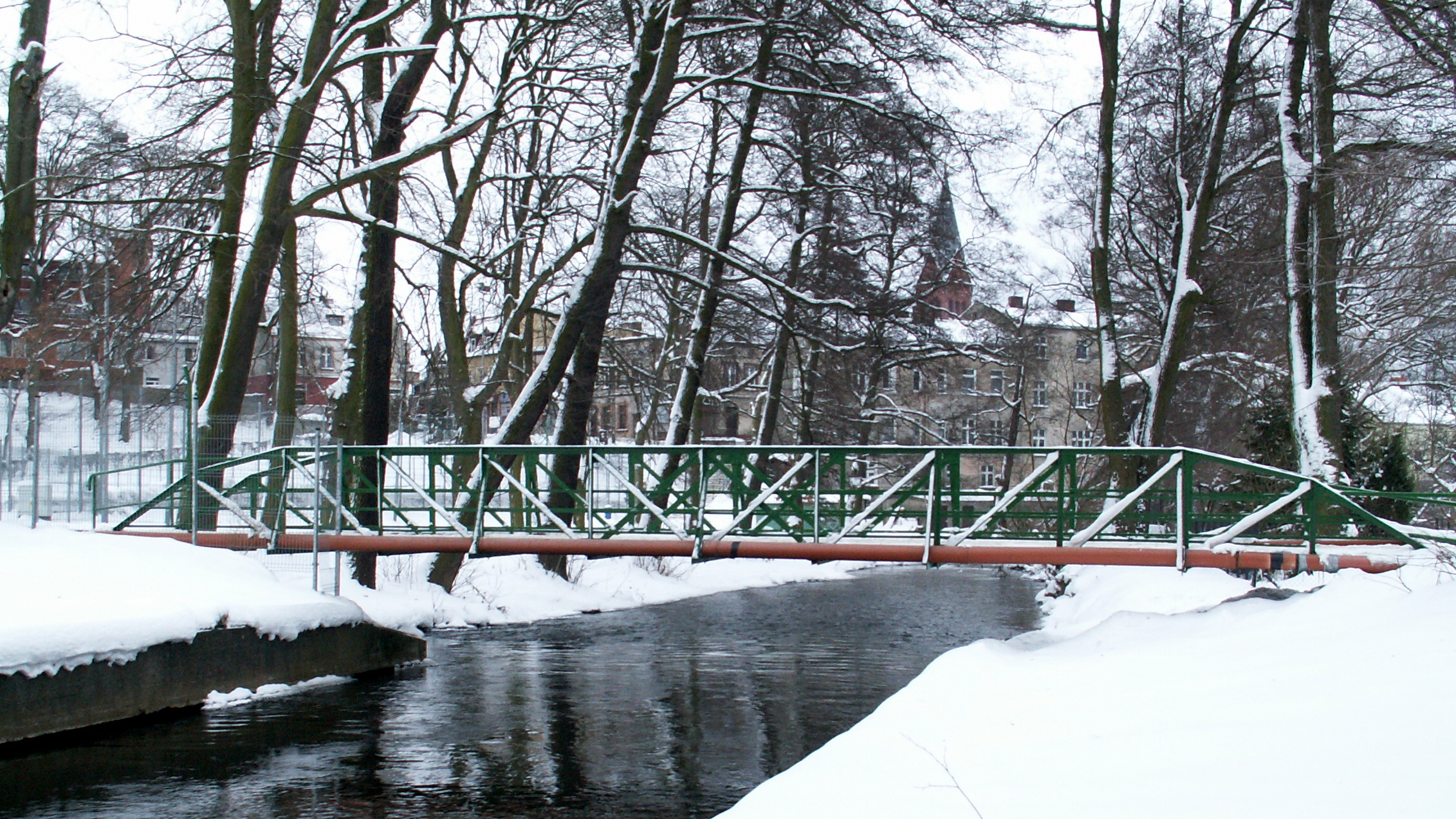 Bridge over Wietcisa river.